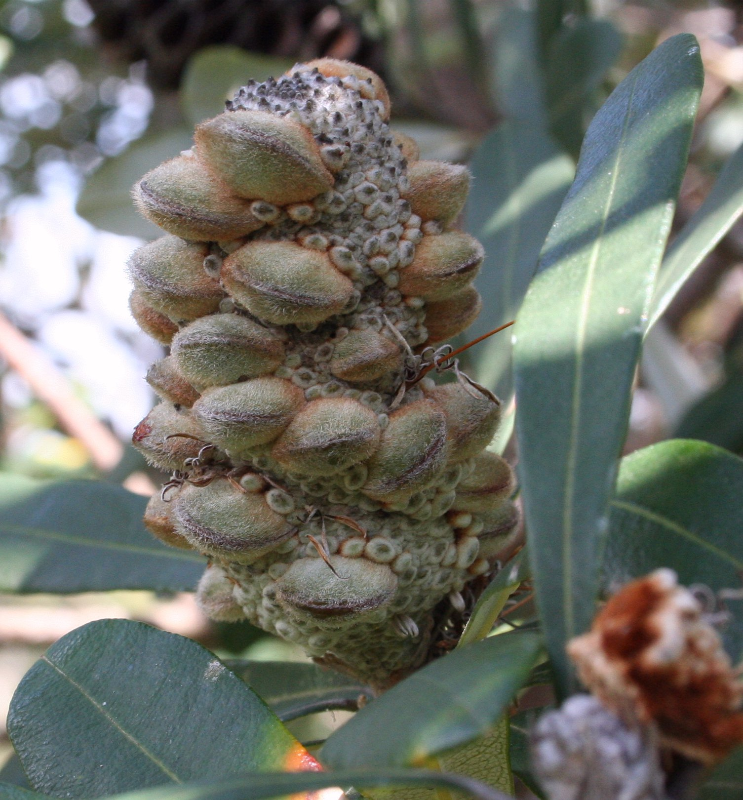 Banksia integrifolia integrifolia - young follicles, Nannygoat Hill